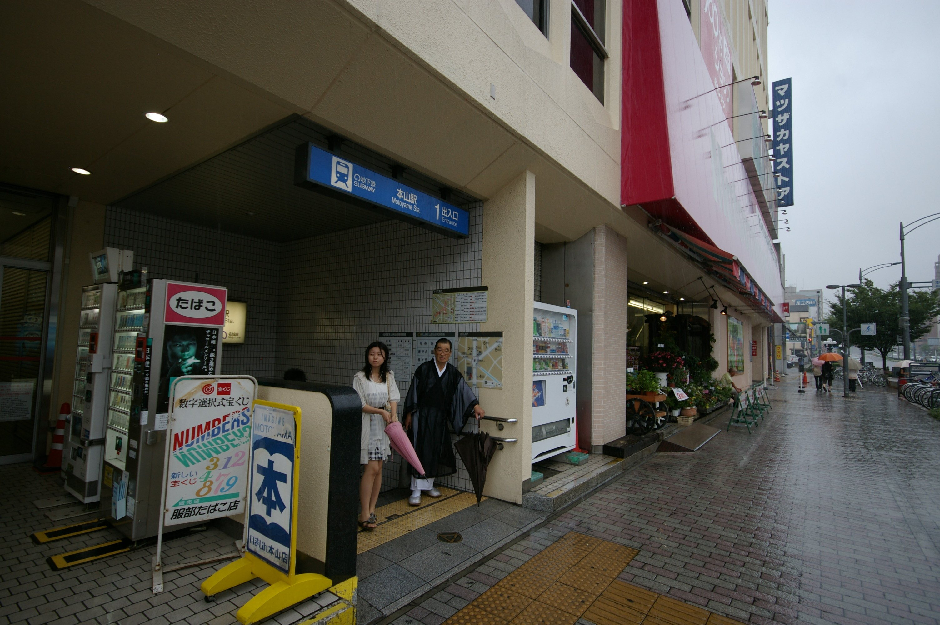 Nagoya Motoyama subway station